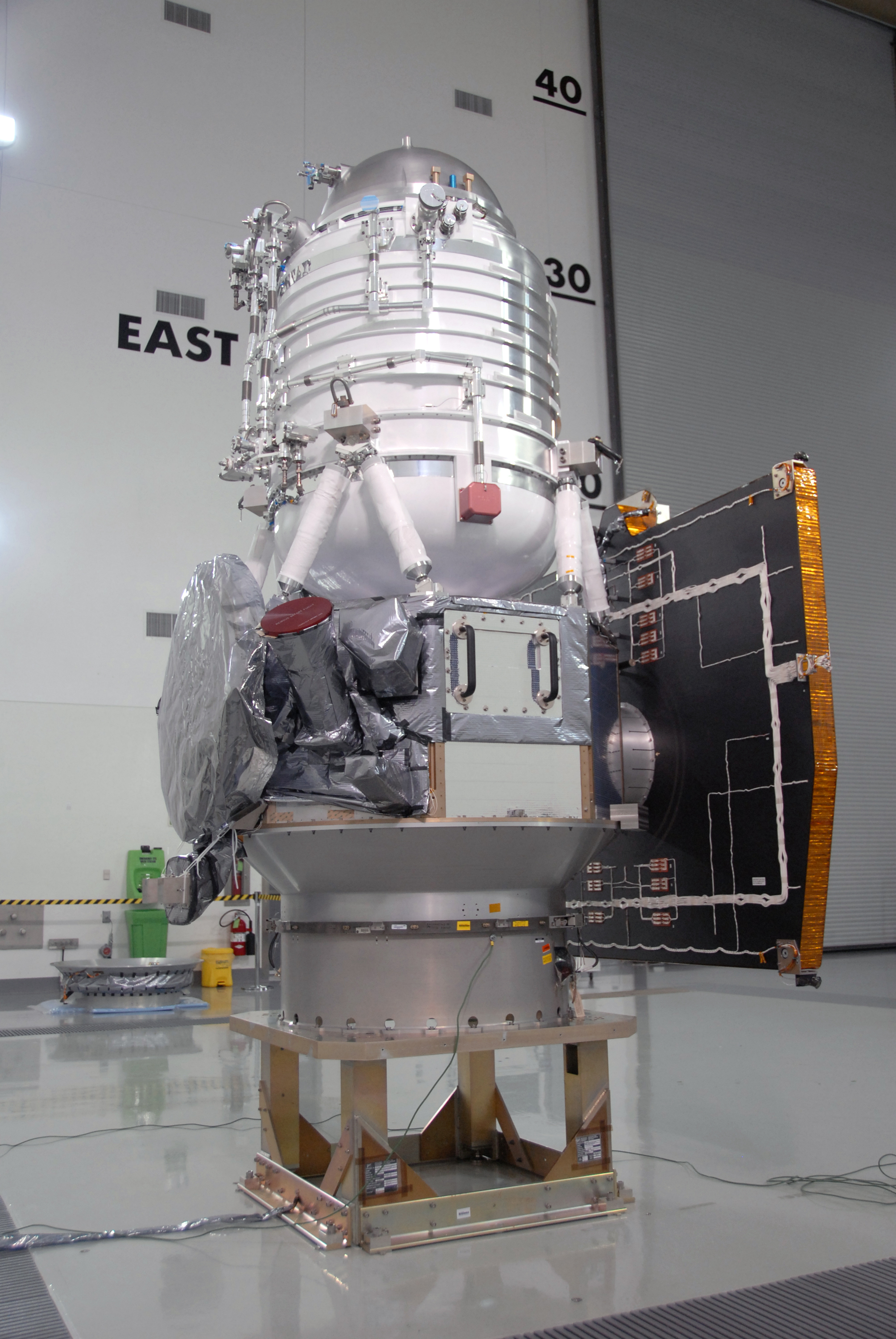 KSC-2009-4762 (08/17/2009) --- VANDENBERG AIR FORCE BASE, Calif. -- At Vandenberg Air Force Base's Astrotech processing facility in California, NASA's Wide-field Infrared Survey Explorer, or WISE, spacecraft is situated on a work stand. At right is the fixed panel solar array. The satellite will survey the entire sky at infrared wavelengths, creating a cosmic clearinghouse of hundreds of millions of objects, which will be catalogued, providing a vast storehouse of knowledge about the solar system, the Milky Way, and the universe. Launch is scheduled no earlier than Dec. 10. Photo credit: NASA/Moore, VAFB